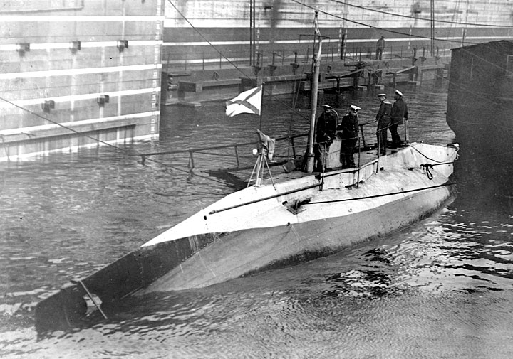 The Imperial Russian submarine «Sudak» on a dock.